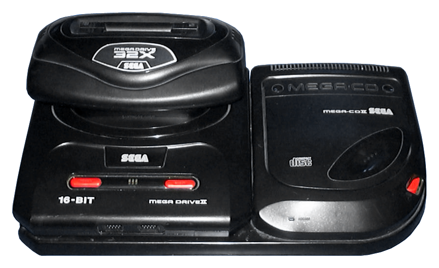 A PAL Mega Drive II combined with a PAL Mega-CD II and a PAL 32X to build up the Mega-CD 32X (sometimes also called Mega Drive 32X CD ).